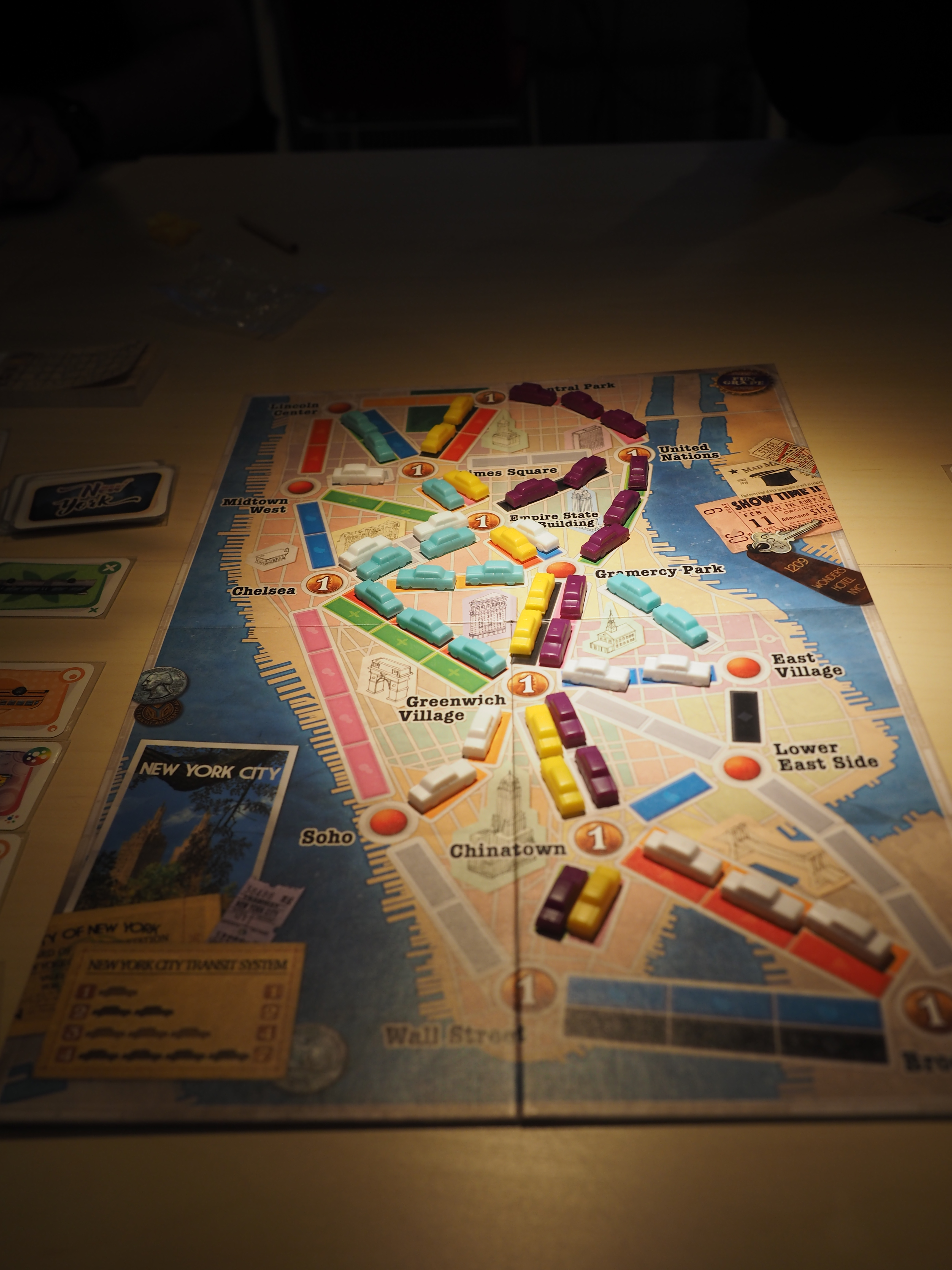 A game of Ticket to Ride New York at the end of play, played at the Espoo Cultural Centre in Tapiola, Espoo, Finland.